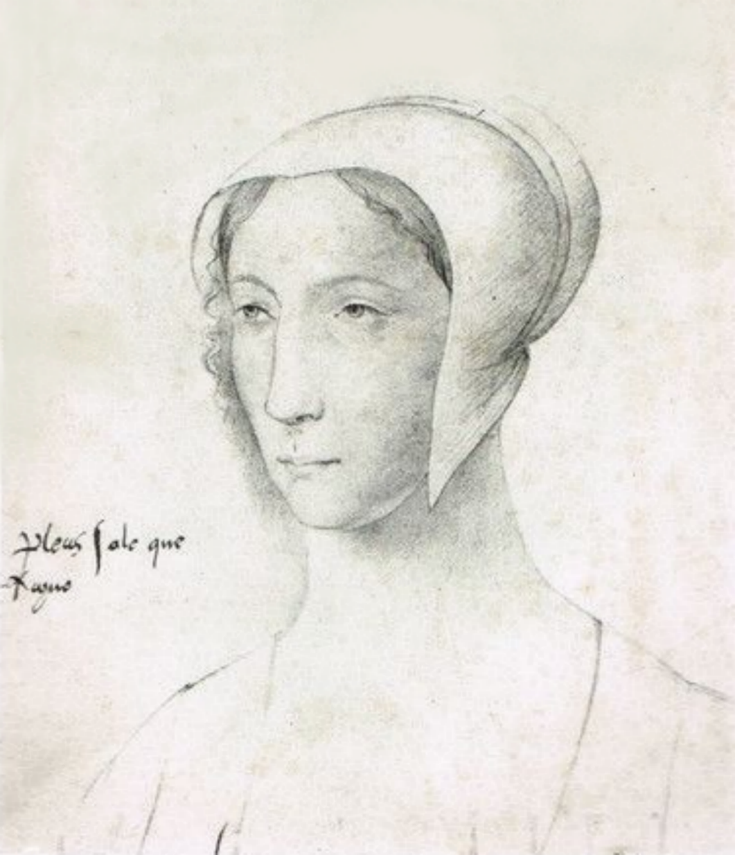 Marie d'Angleterre (Mary Tudor)